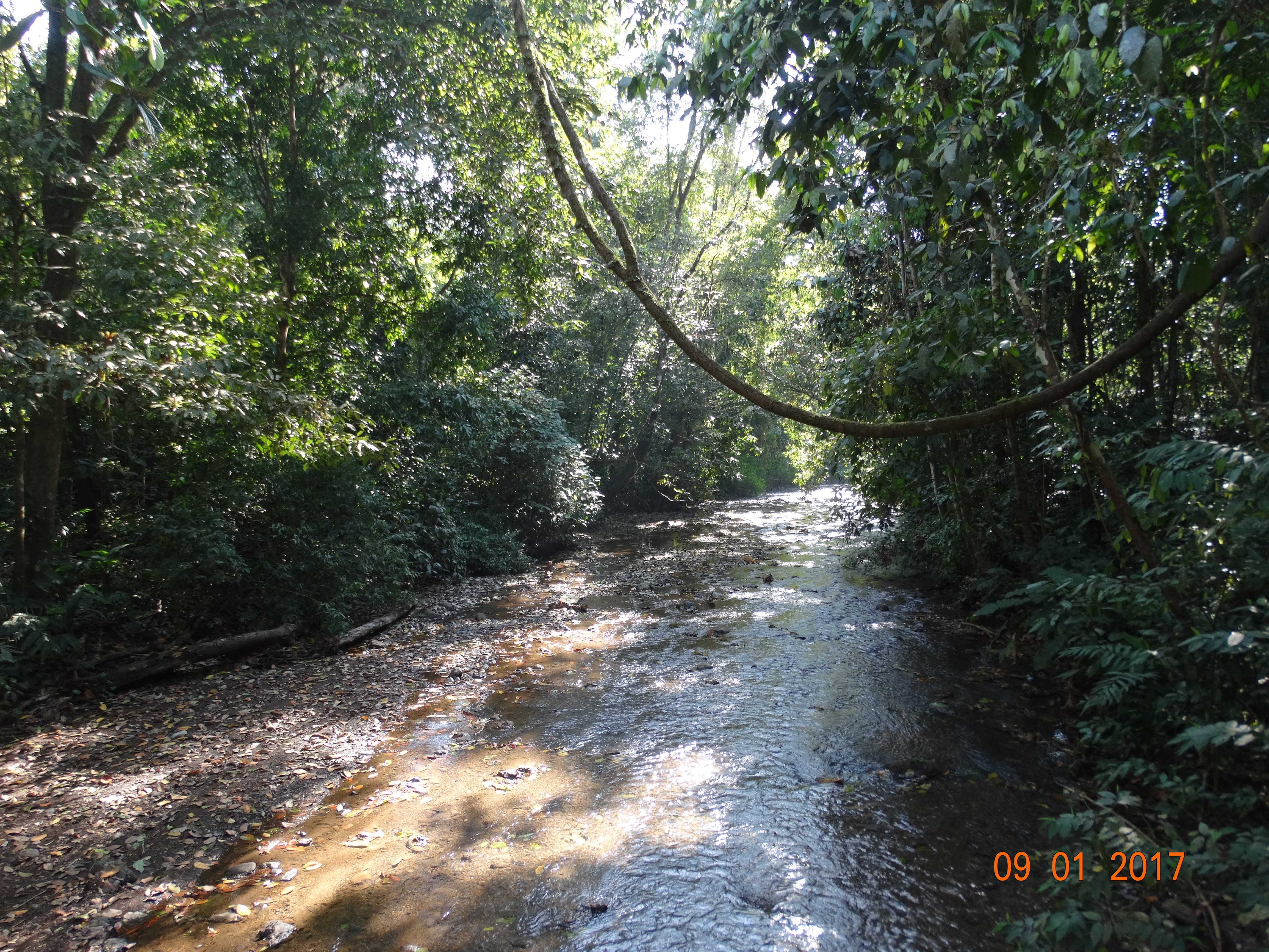 River in Carara National Park